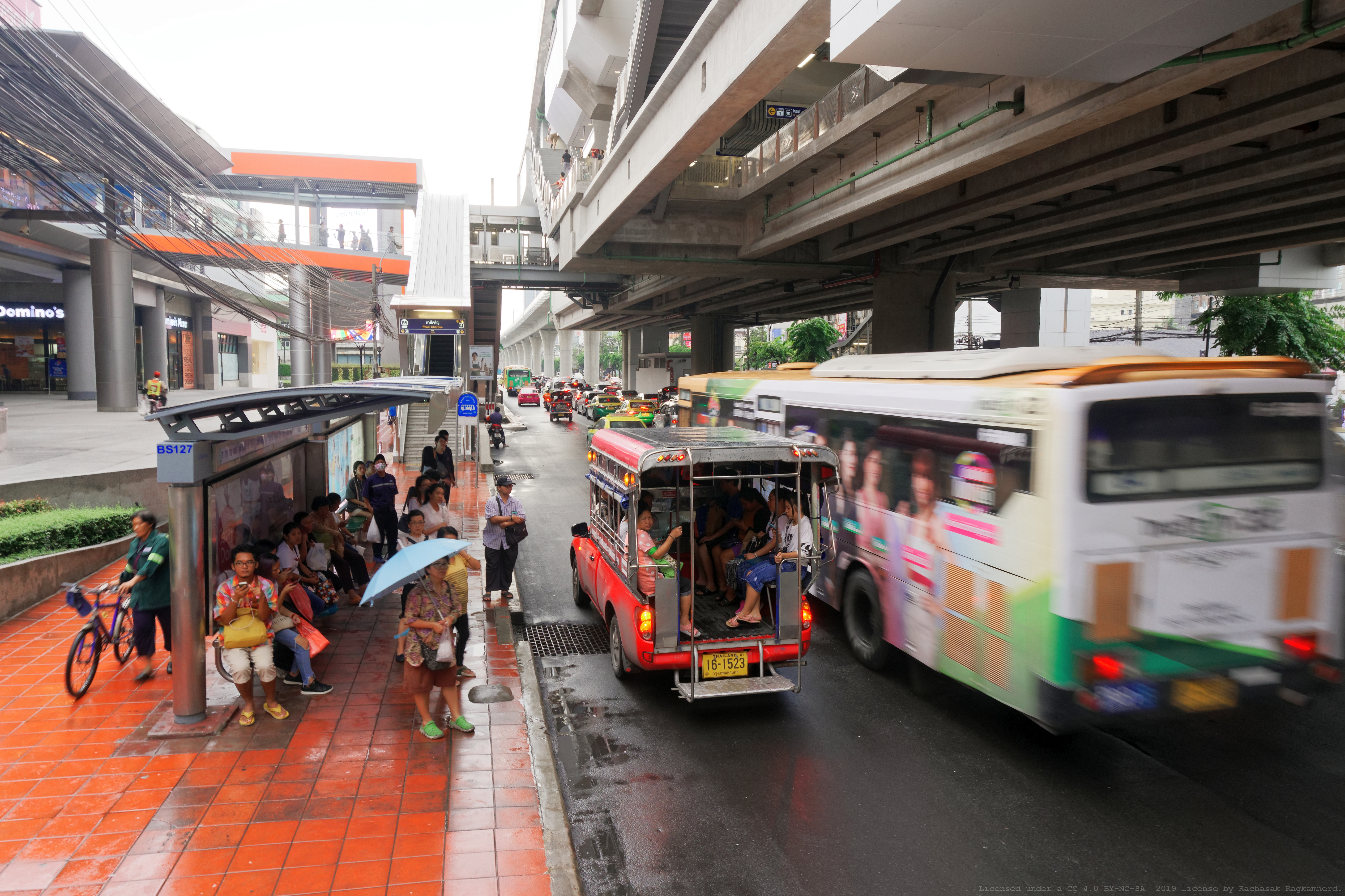 MRT Phasi Charoen station: Bus stop near the station in front of Seacon Bangkae shopping mall.